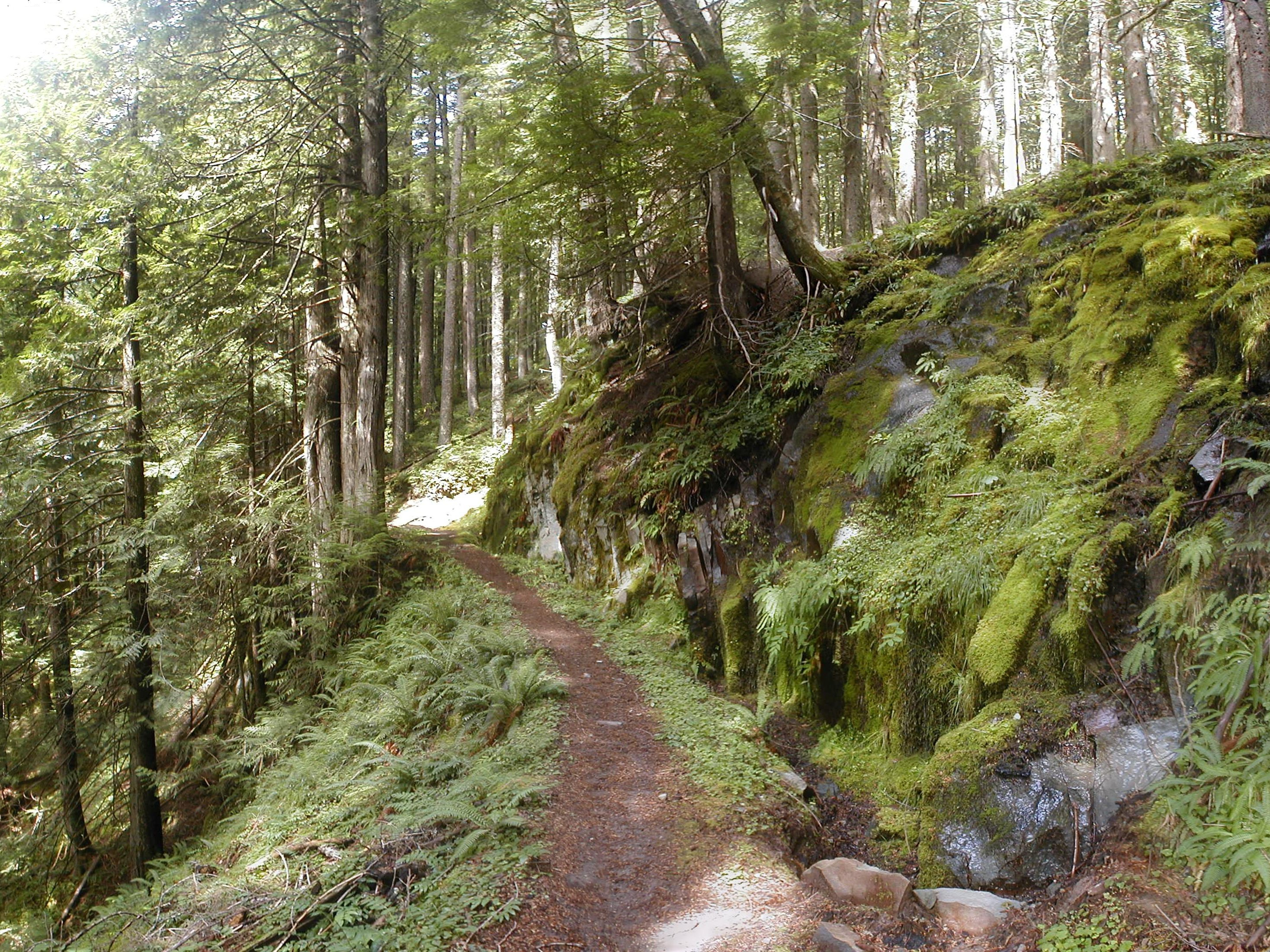 Mount Hood Wilderness, Oregon. Temperate rain forest near Ramona Falls, Timberline hiking Trail, about 9.5 miles from Timberline Lodge